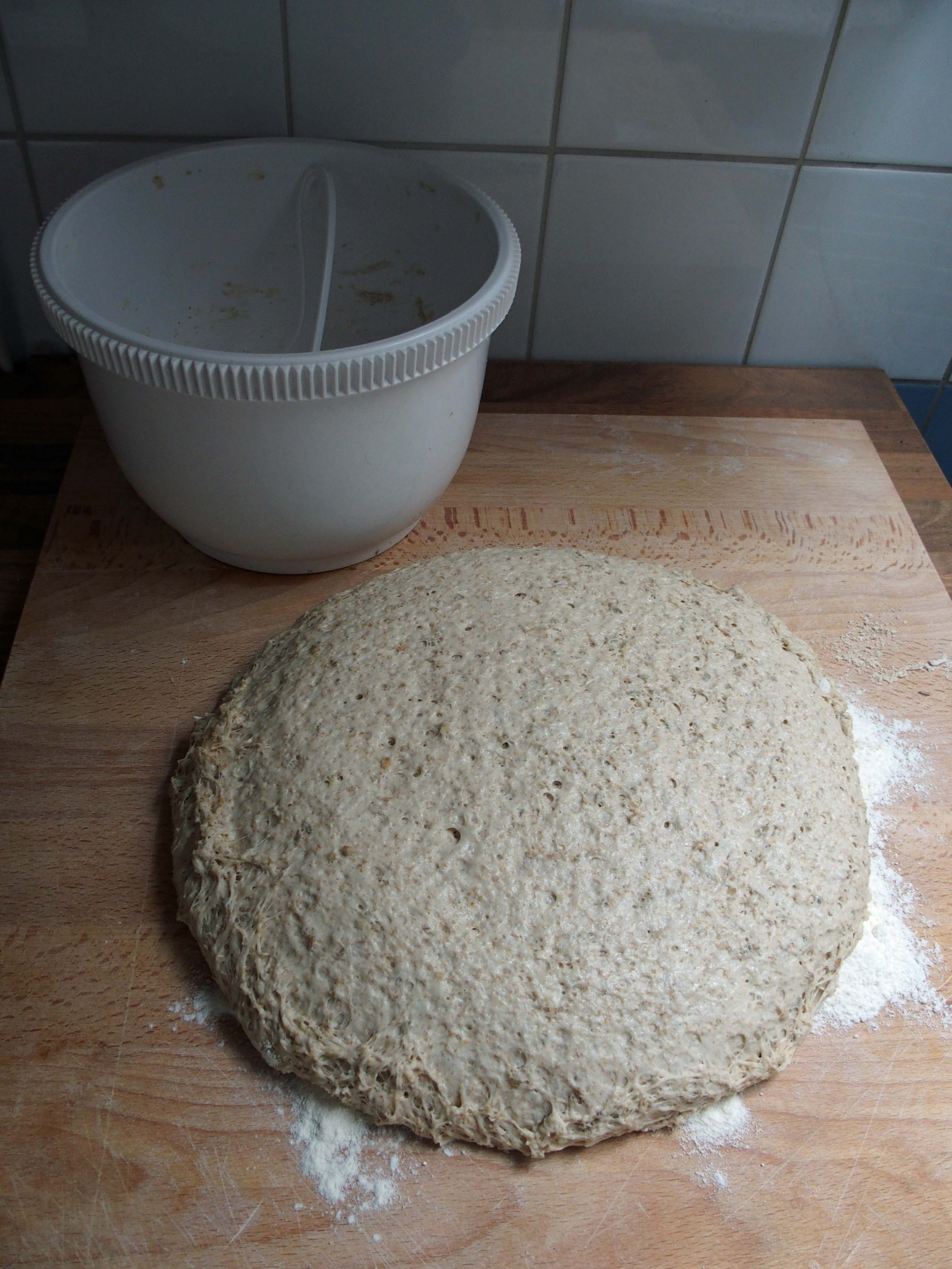 Bubbly bread dough on wooden baking board